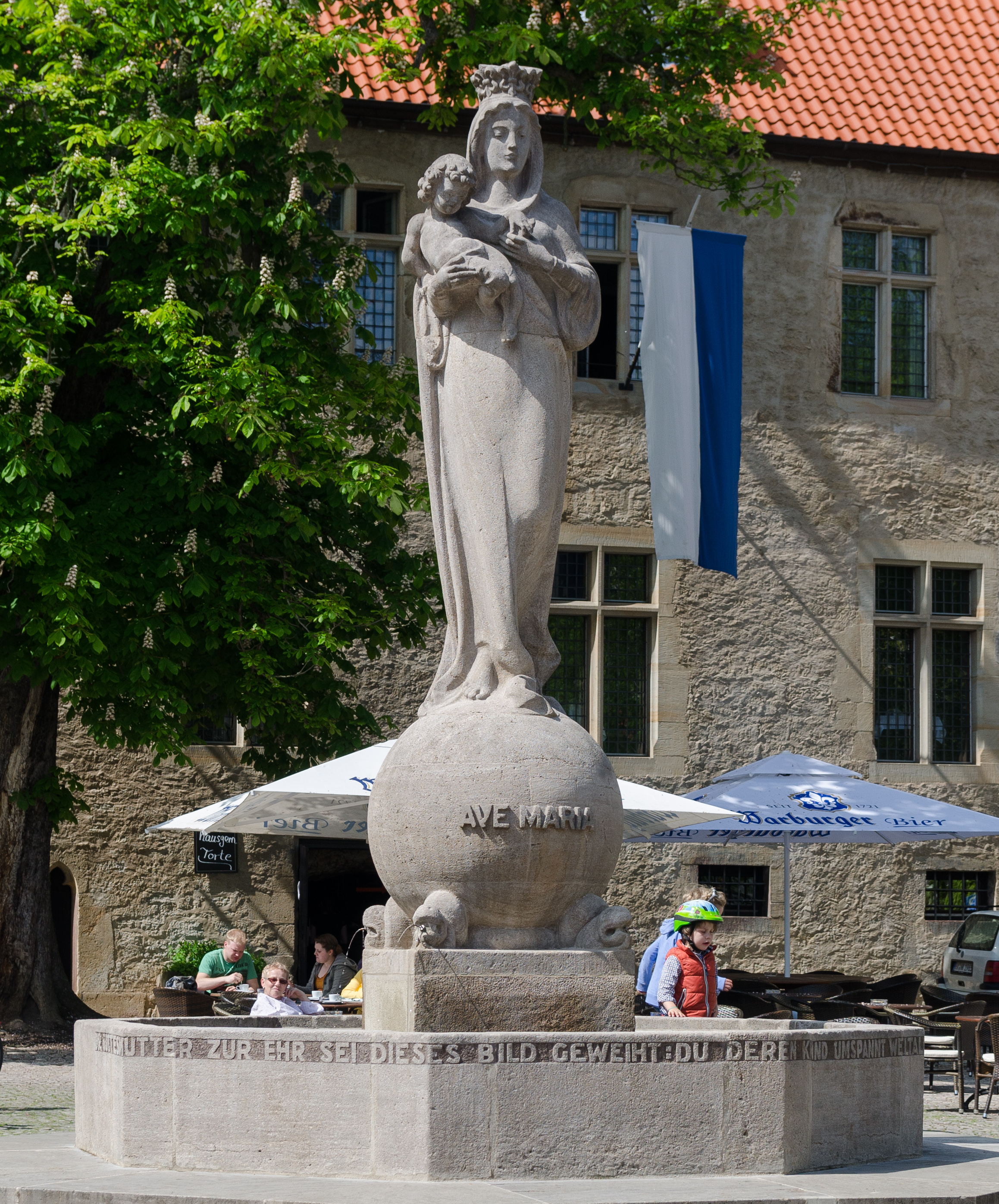 Maria's Fountain ("Marienbrunnen") on the market square of Old Town of Warburg.